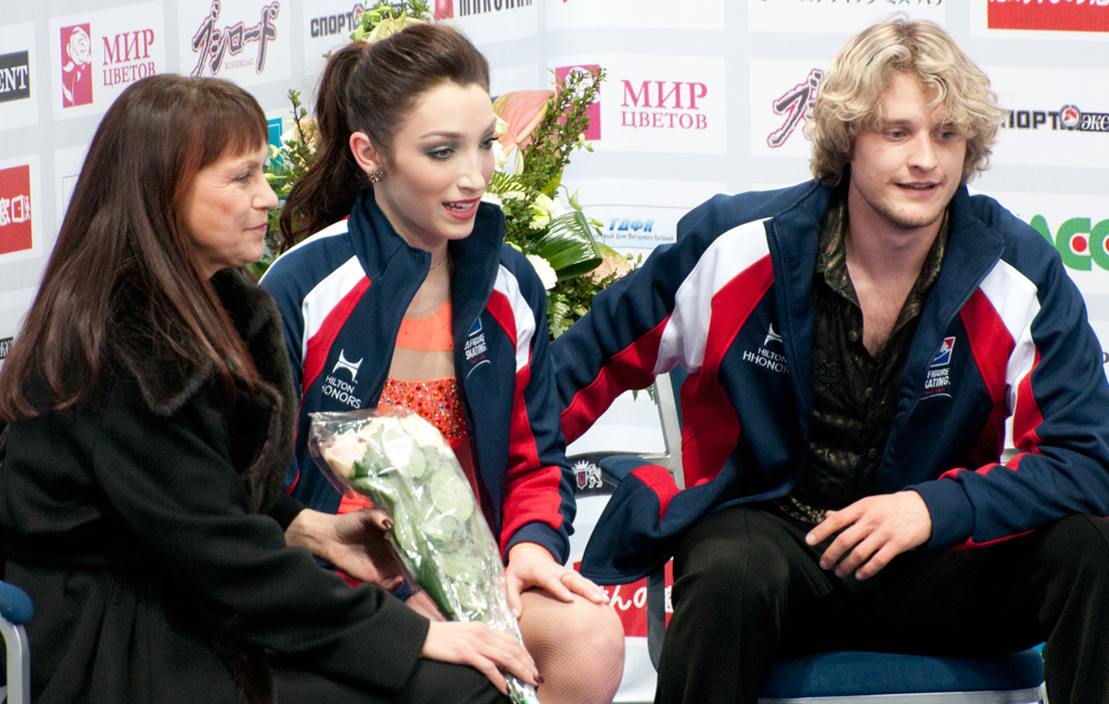 2011 Cup of Russia, short program.